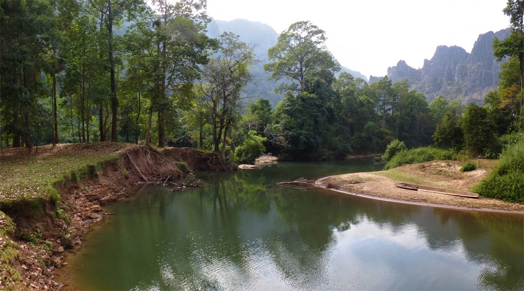 Nam Hinboun on the east end of Tham Khong Lor, Phou Hin Boun National Protected Area, Khammouane Province, Laos.